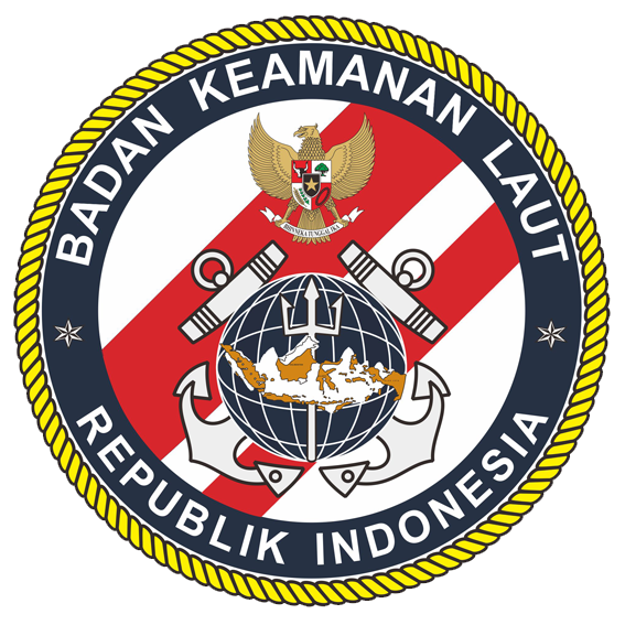 Badan Keamanan Laut Republik Indonesia